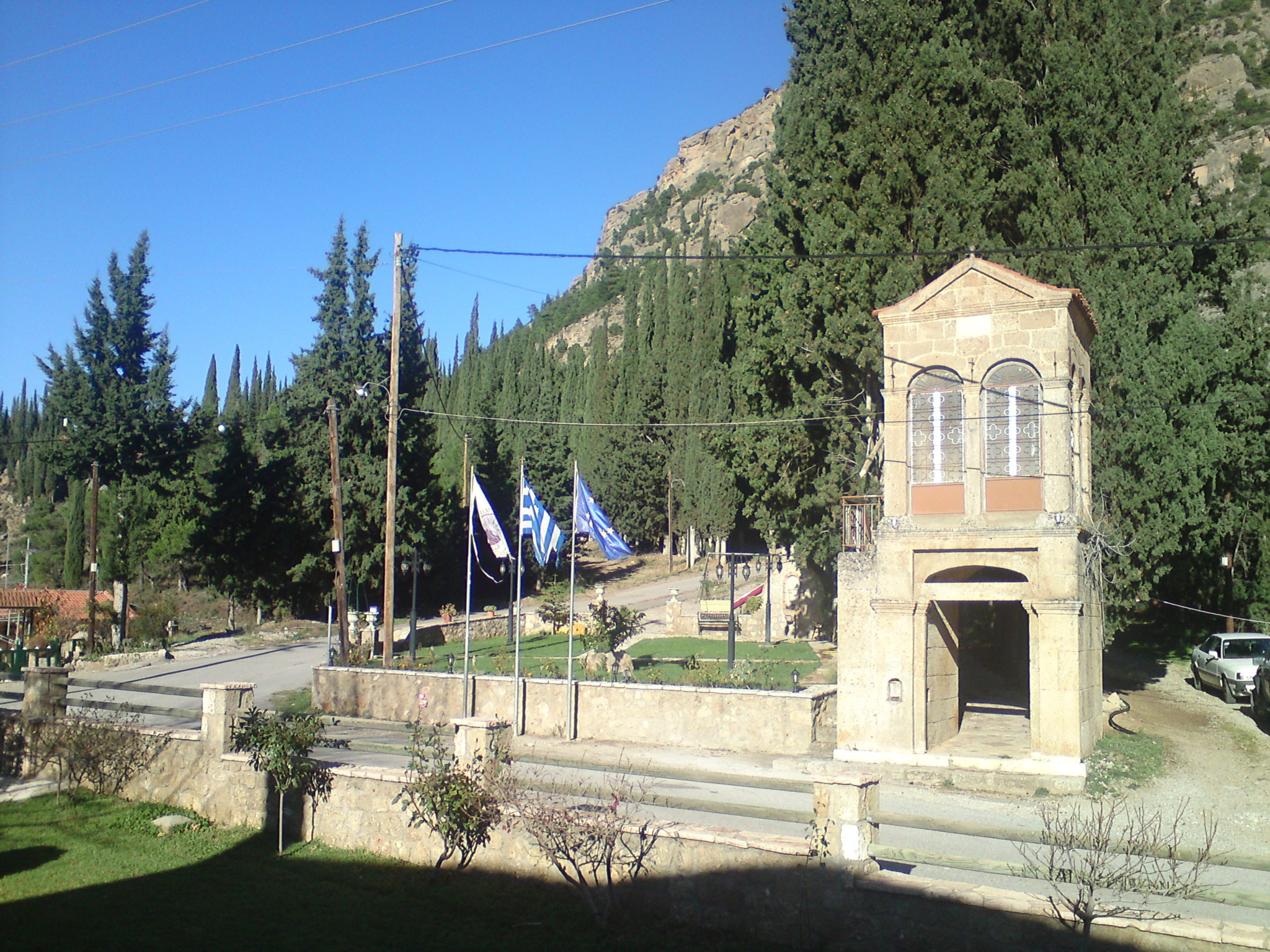 The old shrine Monastiri village (Vergouvitsa) at Achaea prefecture, Greece